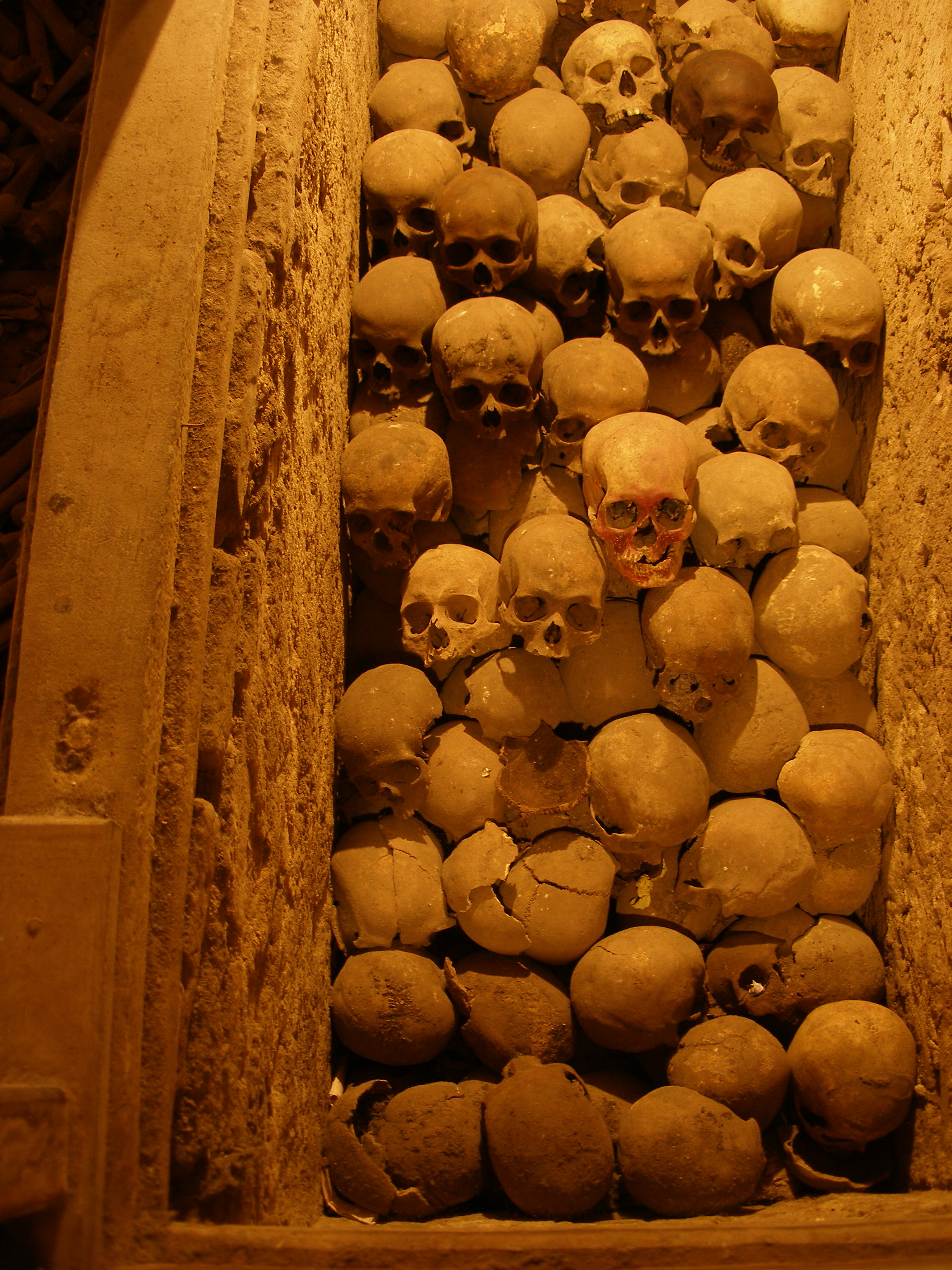 From the catacombs in the basement of the San Francisco church in Lima, Peru.